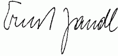 Signature of Austrian author Ernst Jandl